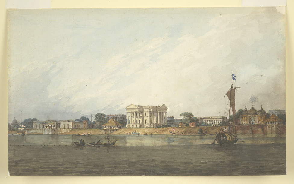 Watercolour painting of Murshidabad in West Bengal by Robert Smith (1787-1873), c. 1814-1815. Inscribed on the mount in pencil is: 'Nawab's House at the City of Moorsedavad'.Murshidabad is situated on the banks of the Bhagirathi River, north of Calcutta in West Bengal